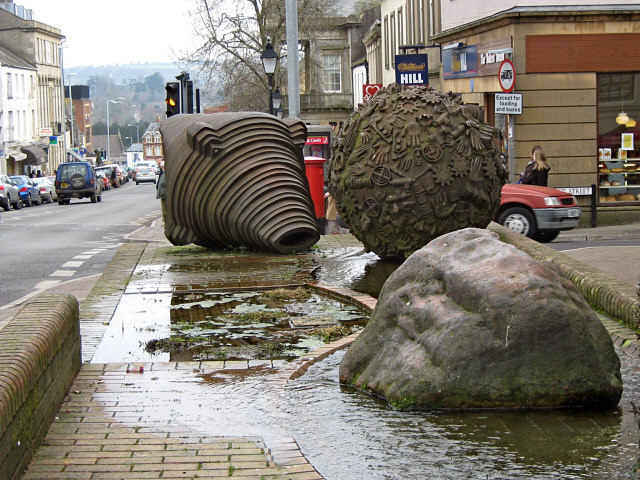 Fore Street, Chard With sculpture by Nevile Gabie (1991)